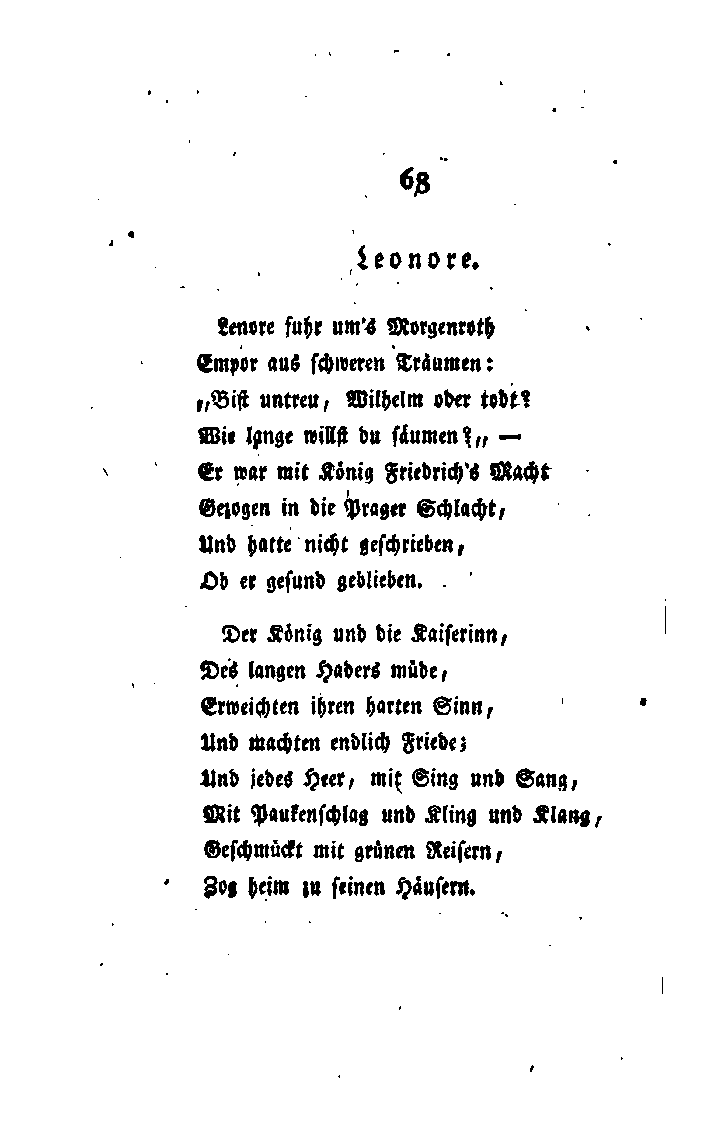 This is a scan of the document: Titel: Gedichte